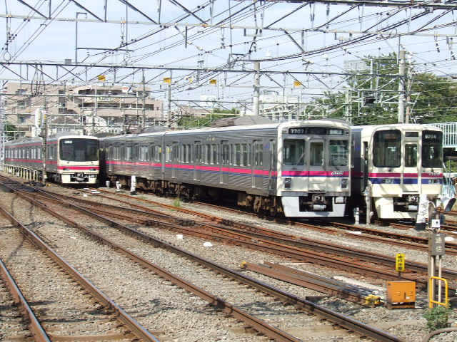 Sakurajosui Custody Lines, Keio Corpotraion